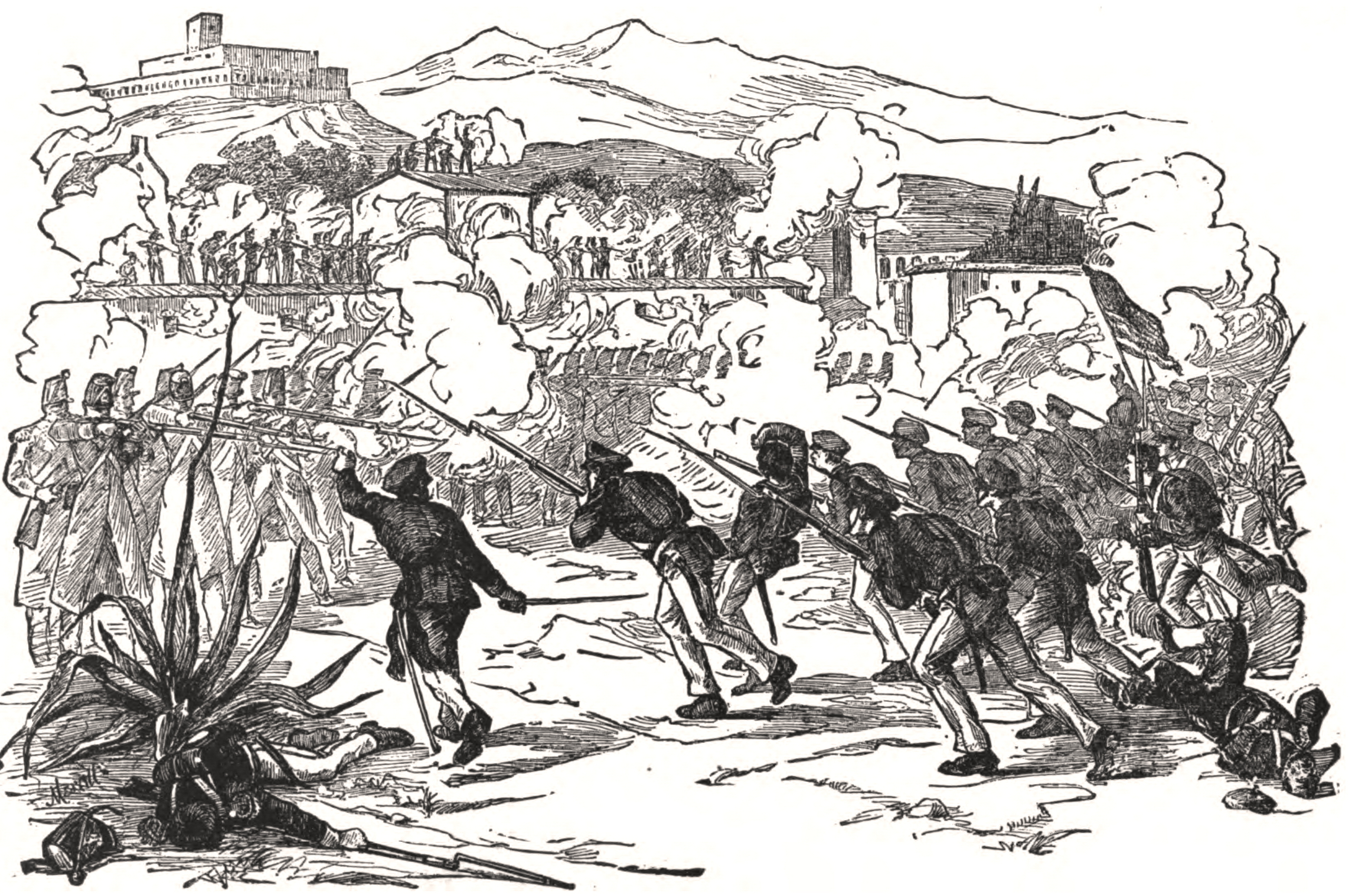 The image caption is the same image caption in the book, "Young Folks History Of Mexico"